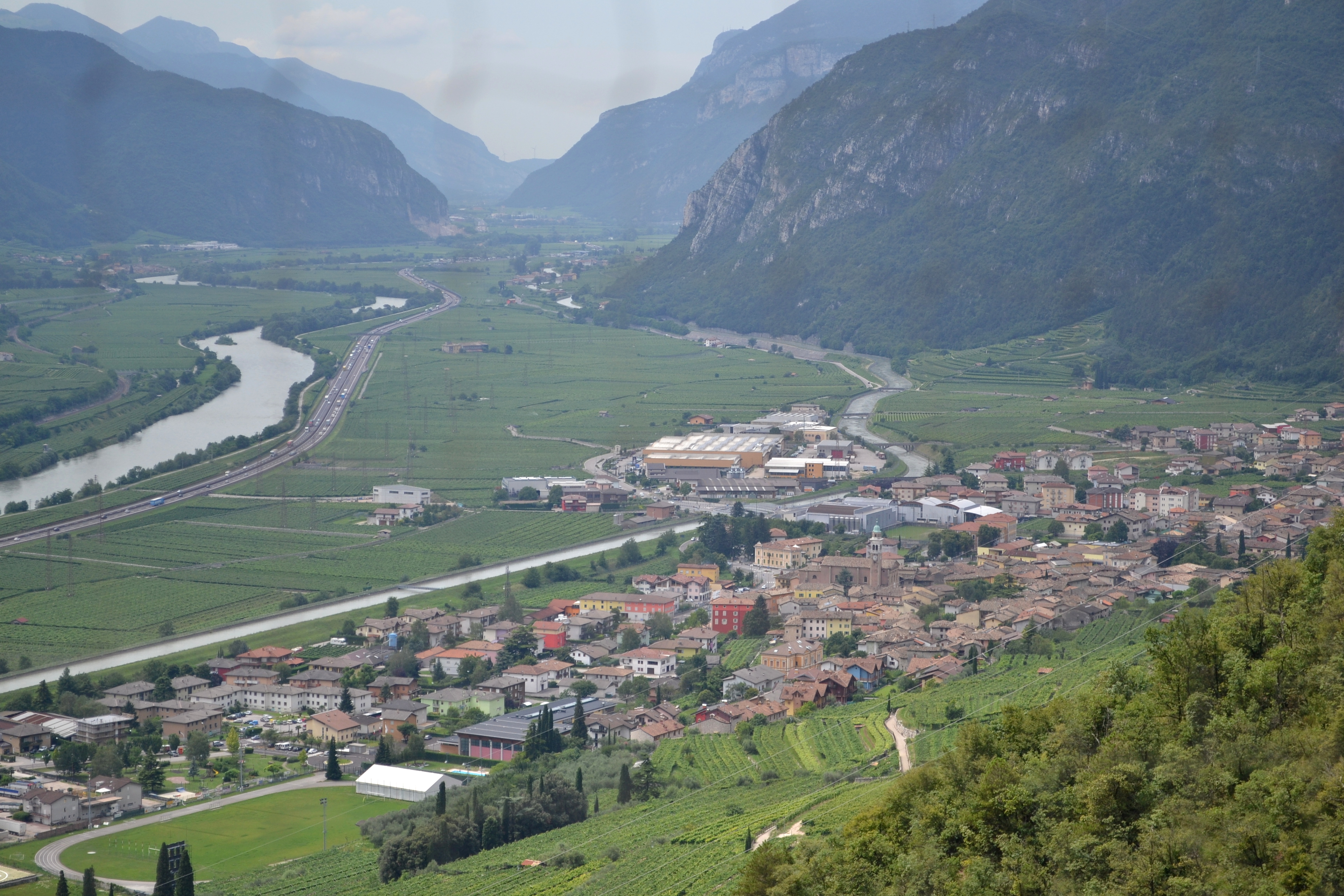 View of Avio, Trentino. The photo was taken from the top of the Castle of Avio.